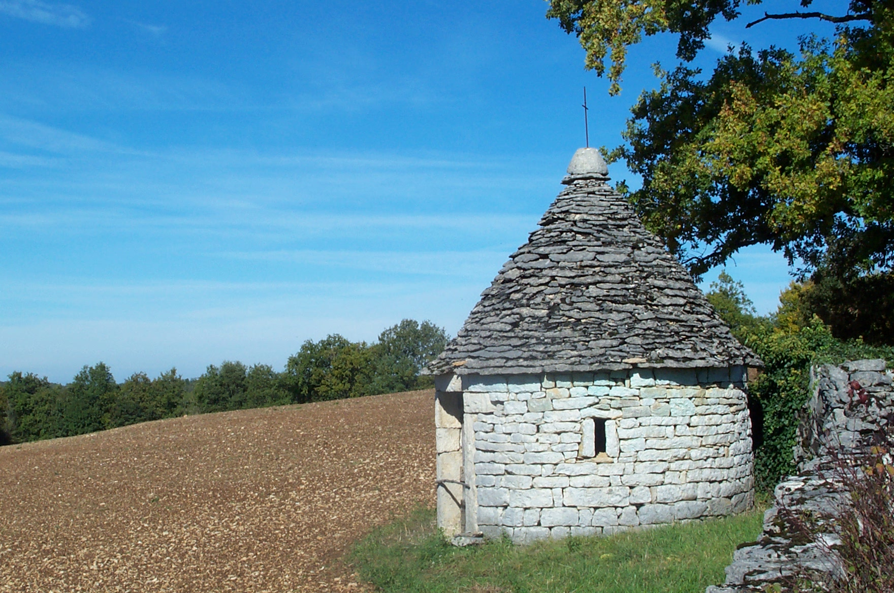 Dry stone hut aka "caselle de Félix" in Issendolus, Lot, France. The roof is capped by an iron cross stuck into a stone pedestal. Photo by Laurent Delrieu.